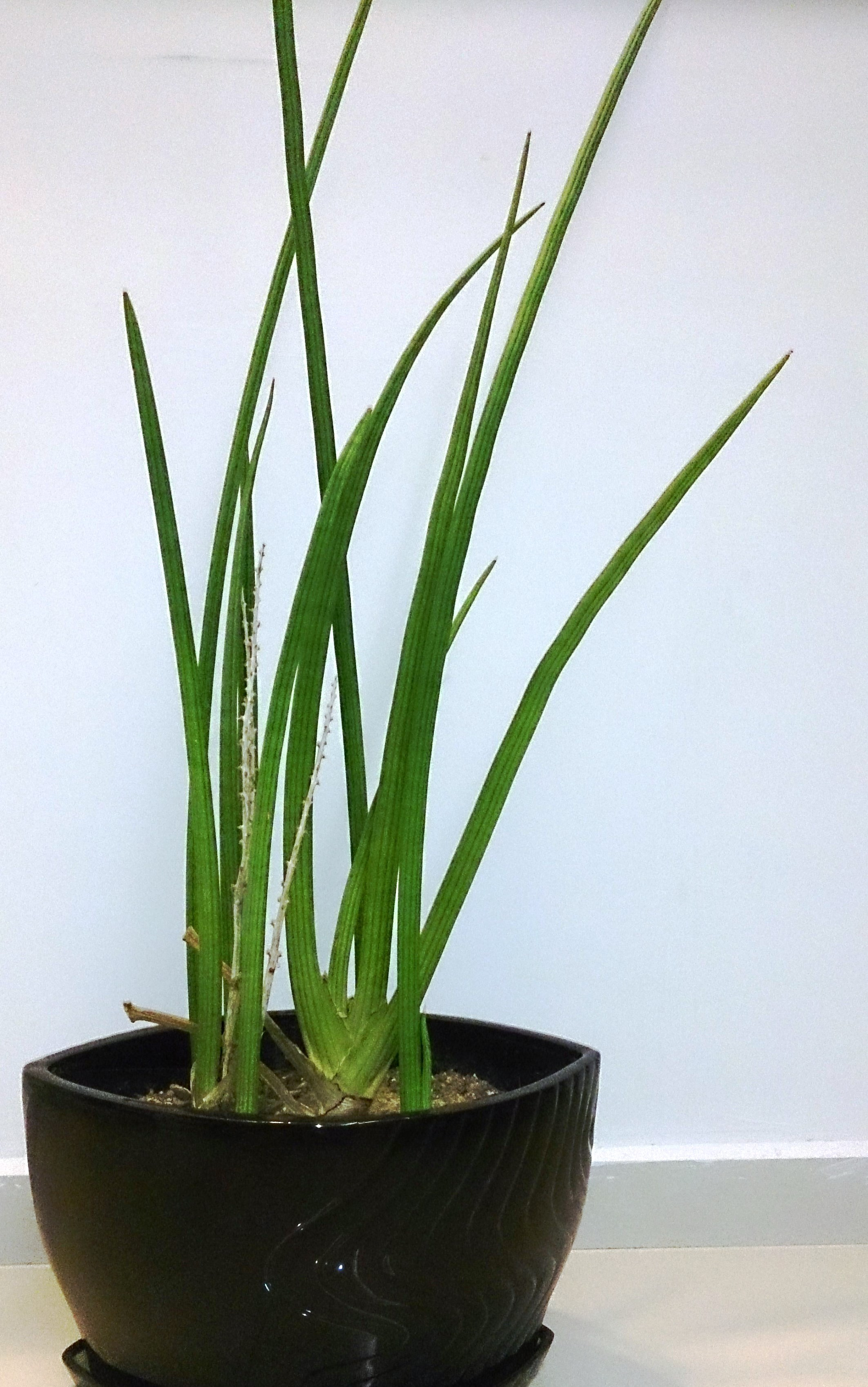 Sansevieria desertii